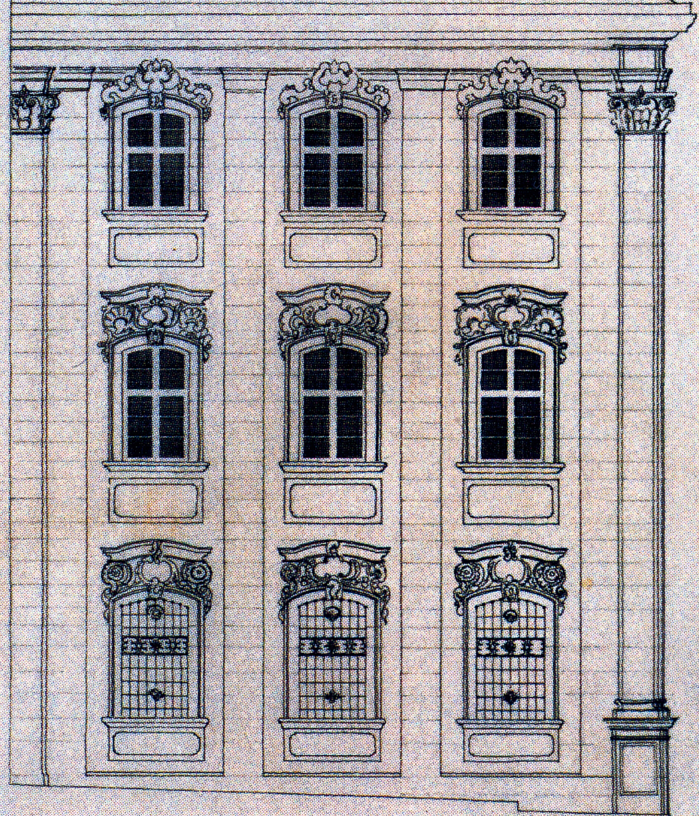 s.o.